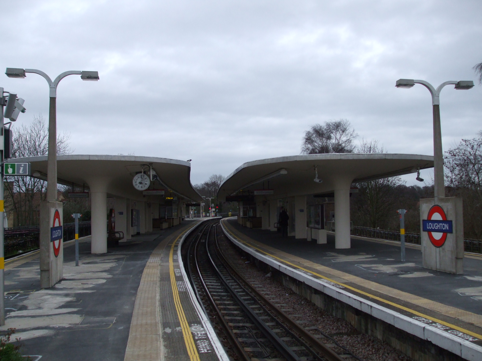 Loughton tube station looking north ("eastbound") along centre terminating platform